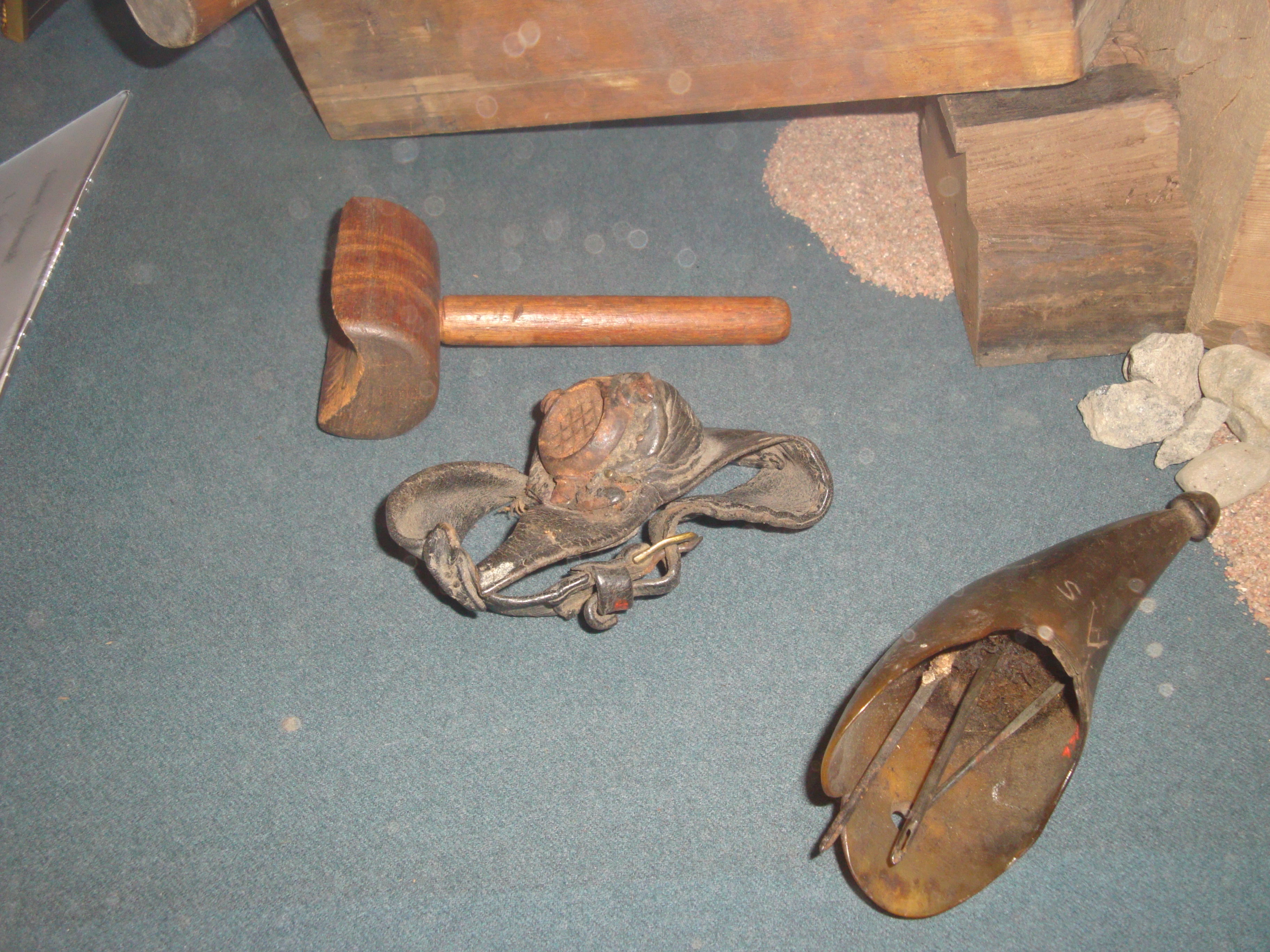 Sailmaker's tools on exhibition in Forum Marinum, Turku, Finland